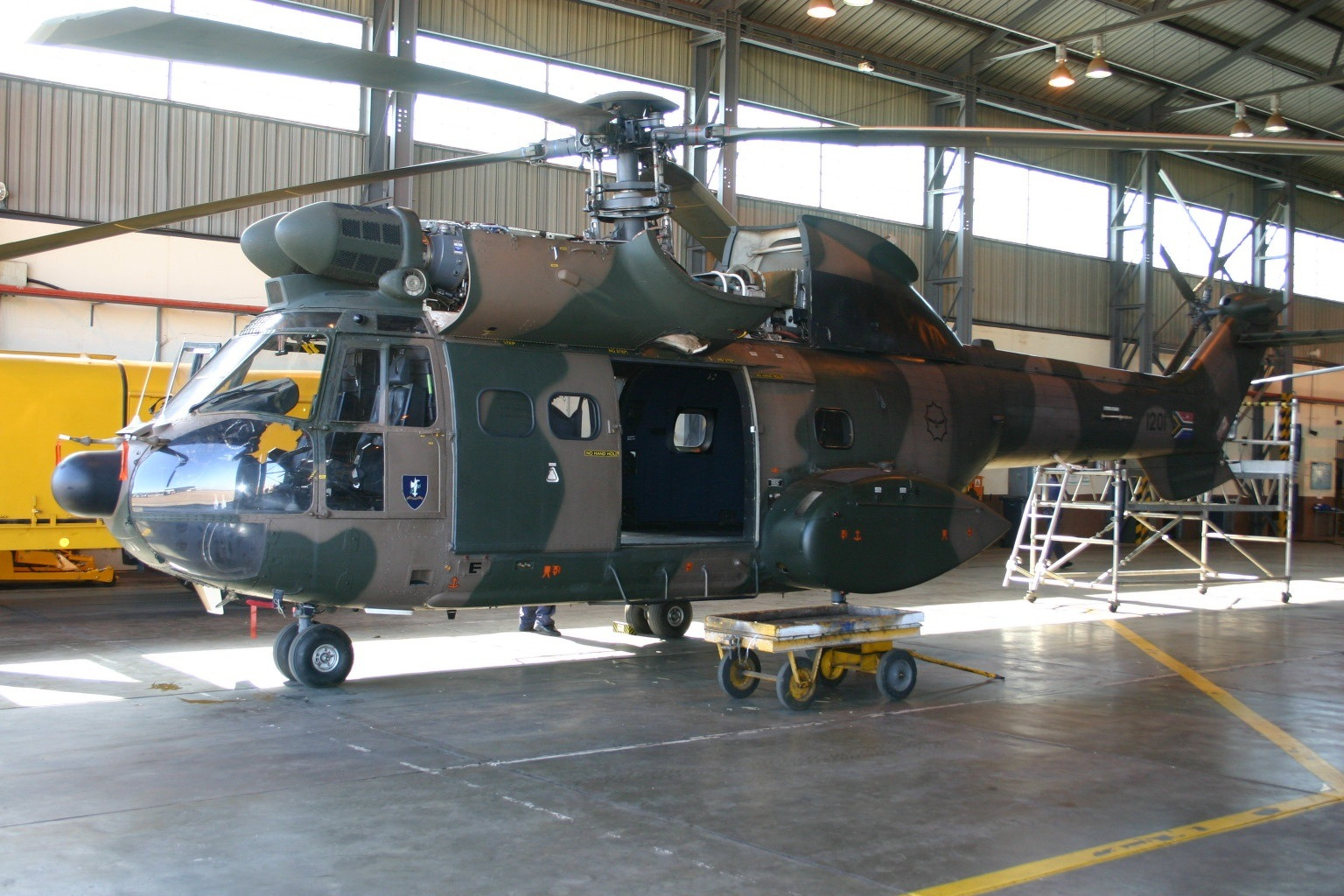 At AFB Swartkop